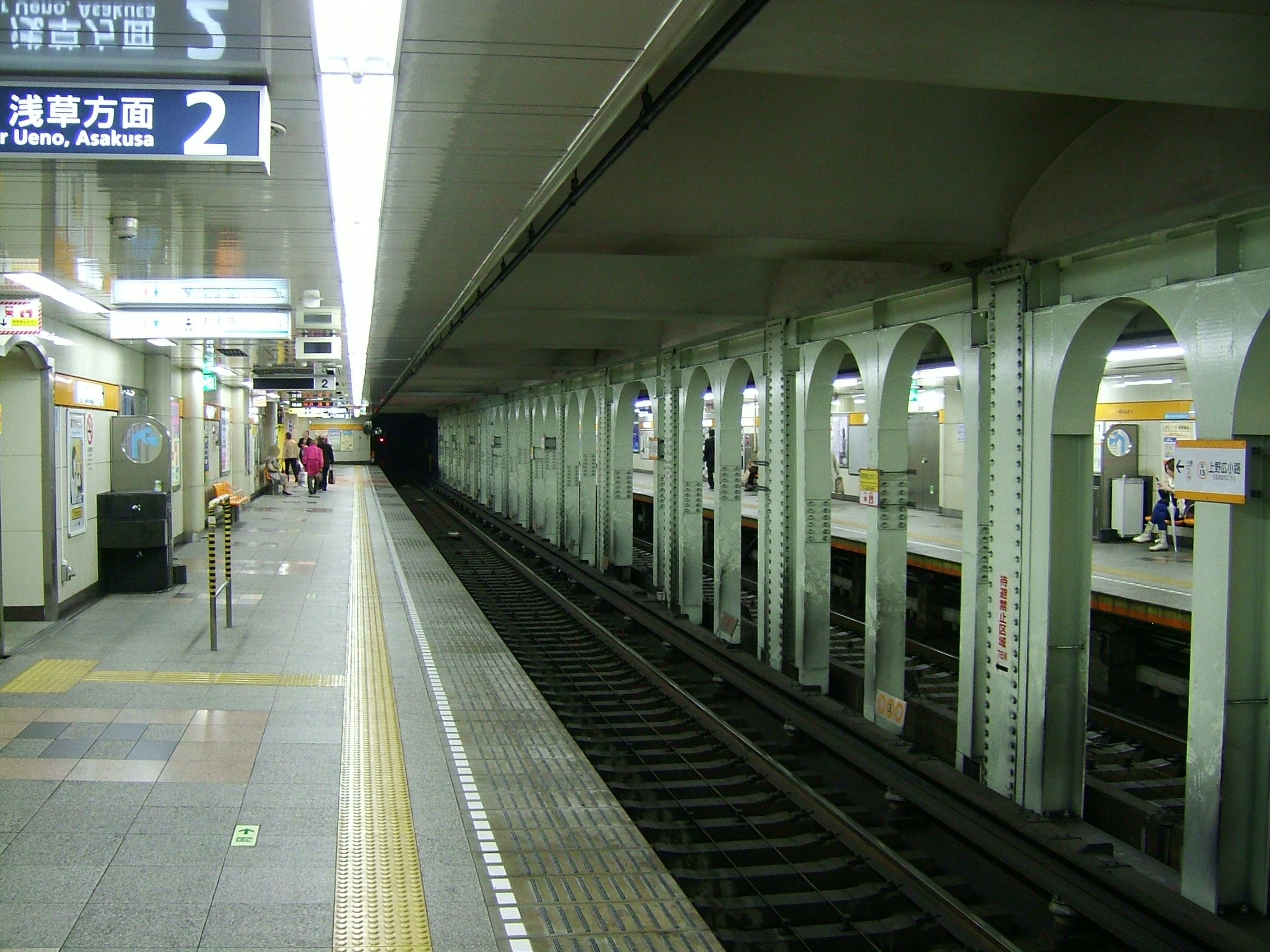 Ueno-hirokōji Station platforms (Tokyo Metro Ginza Line)